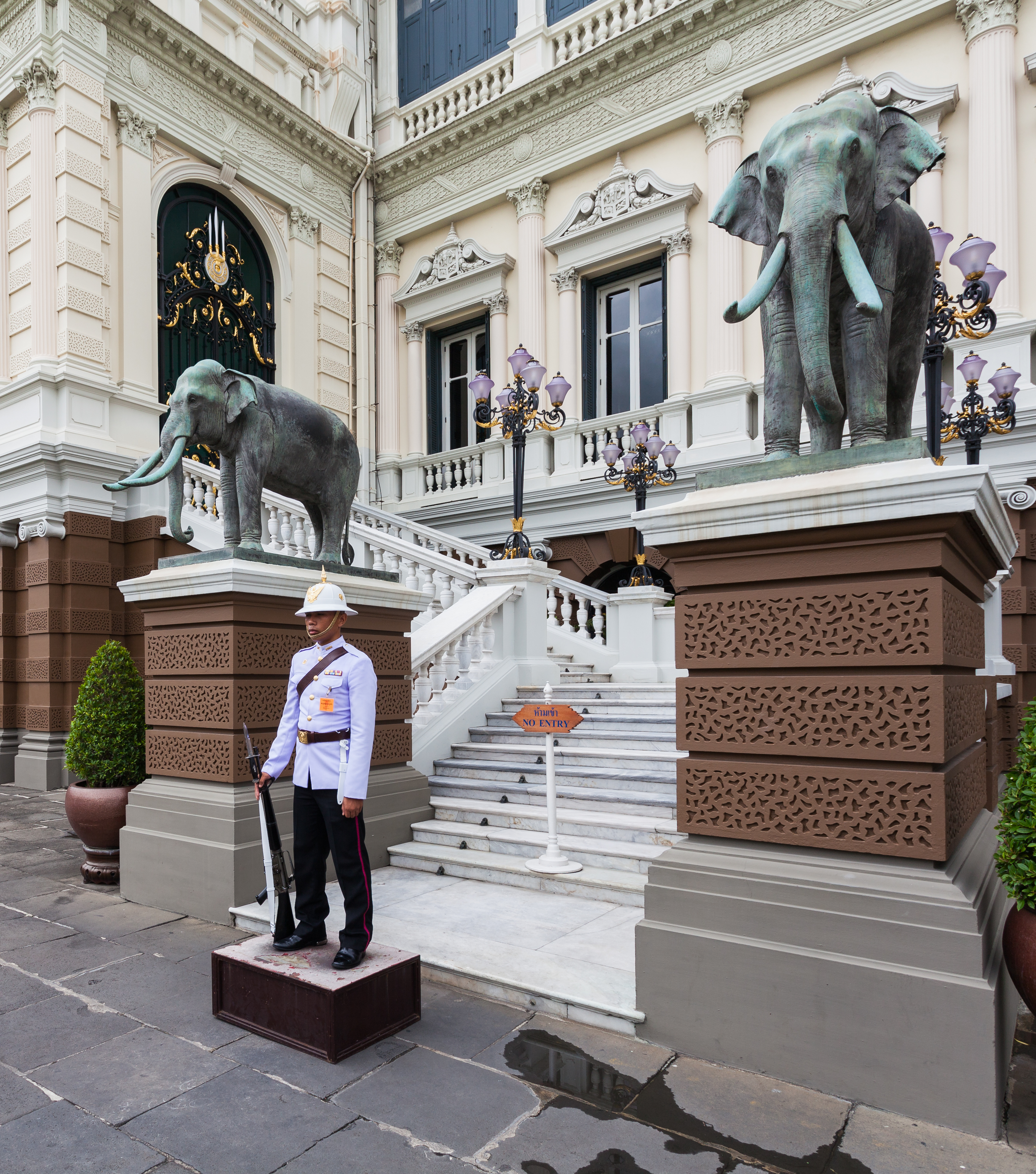 Gradn Palace, Bangkok, Thailand